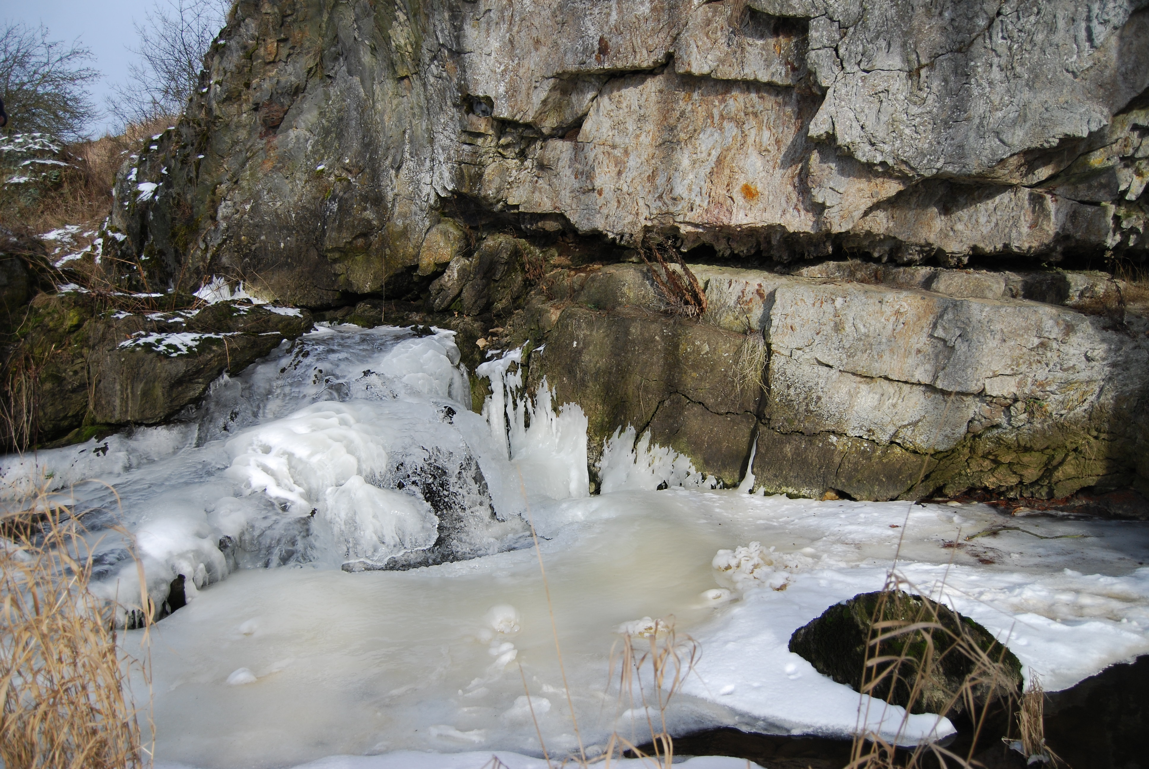 Natural monument Michovka near Drhovle village, Písek District, Czech Republic.